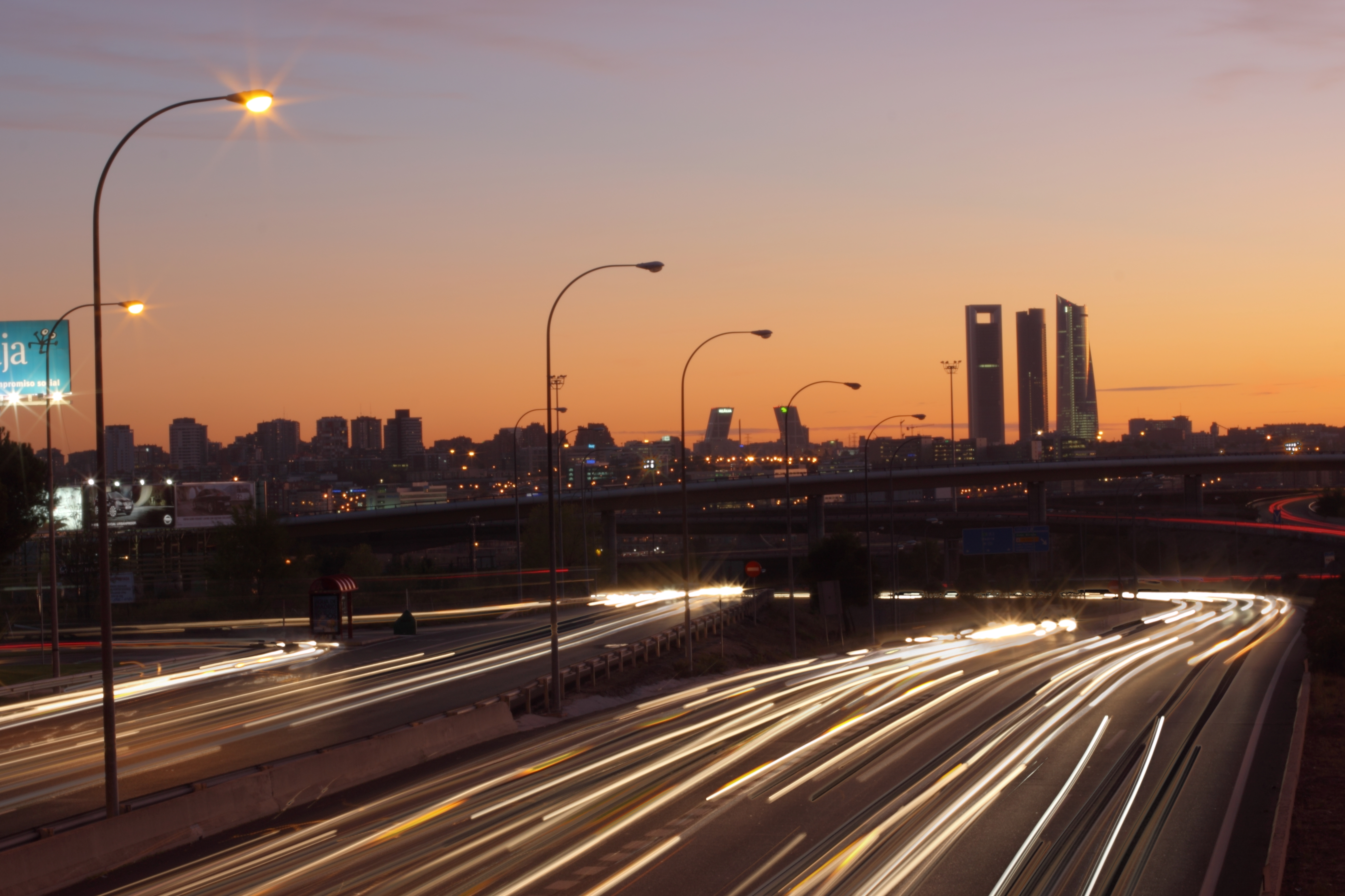 Night view of Madrid (Spain) from Calle de Manuel Azaña (street) in Hortaleza district. At the right, CTBA buildings.